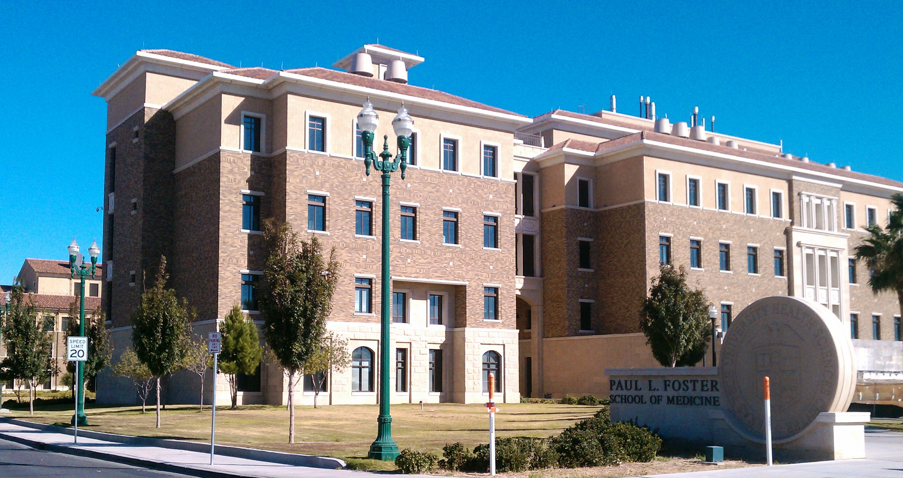 The front entrance to Medical Sciences Building, in Texas Tech University HSC at El Paso. Note in the background Medical Education Building is seen.